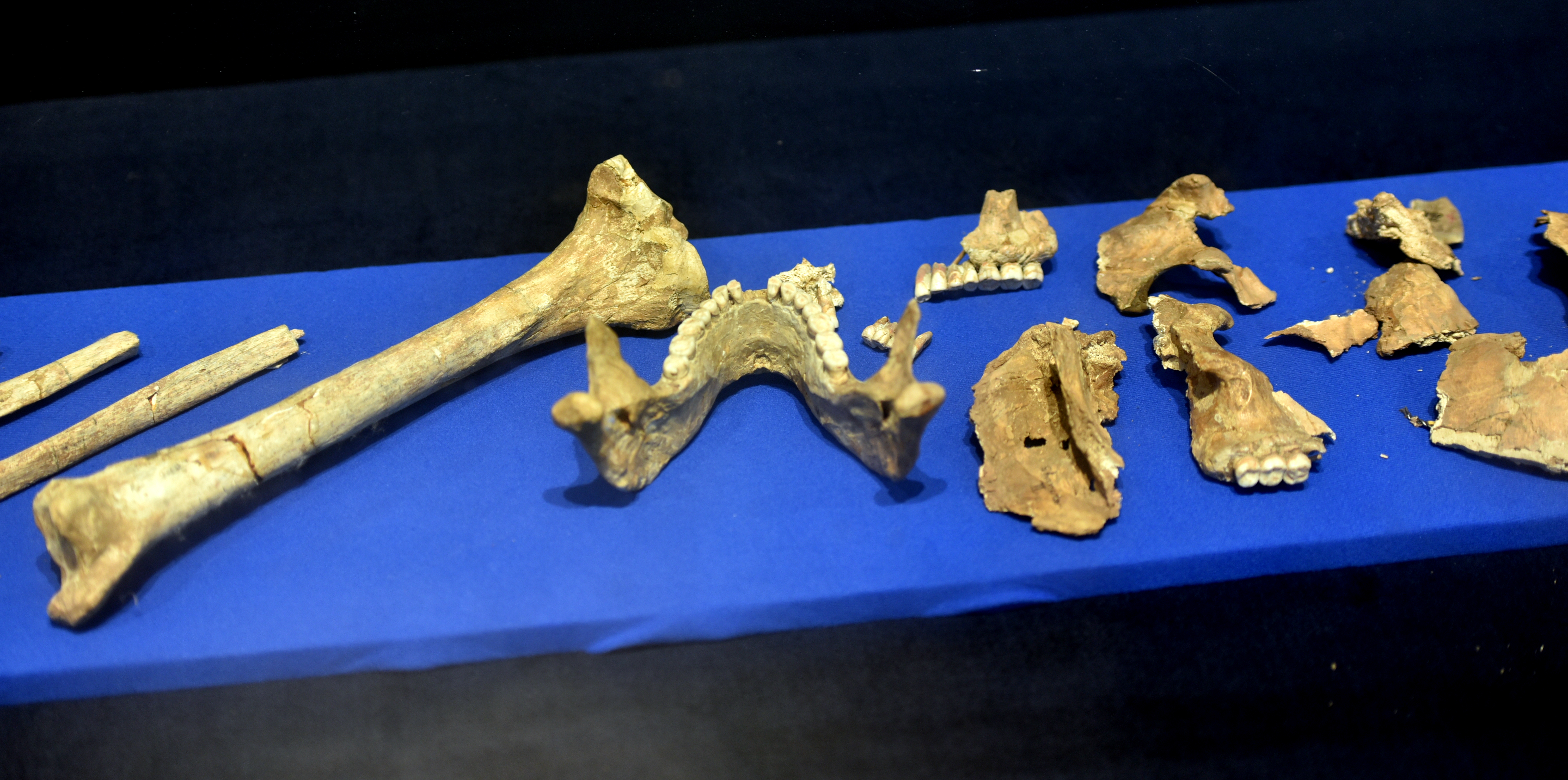 Shanidar II's skeletal remains (upper and lower jaws and teeth, skull fragments, and non-cranial bones); on one of the bones, someone wrote "Shanidar II". From Shanidar Cave, Erbil, Iraq. Circa 60,000 to 45,00o BCE. On display at the Pre-History Gallery of the Iraq Museum in Baghdad, Iraq.